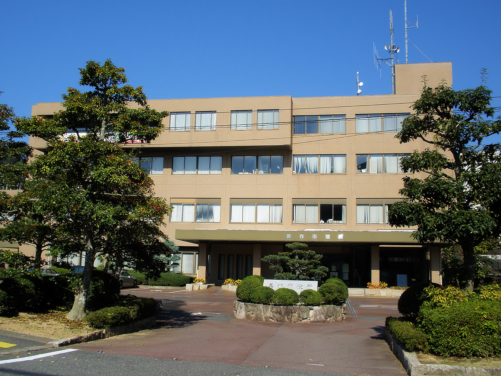 Mimasaka city office Former Mimasaka town office (1979.7 - 2005.3.30)